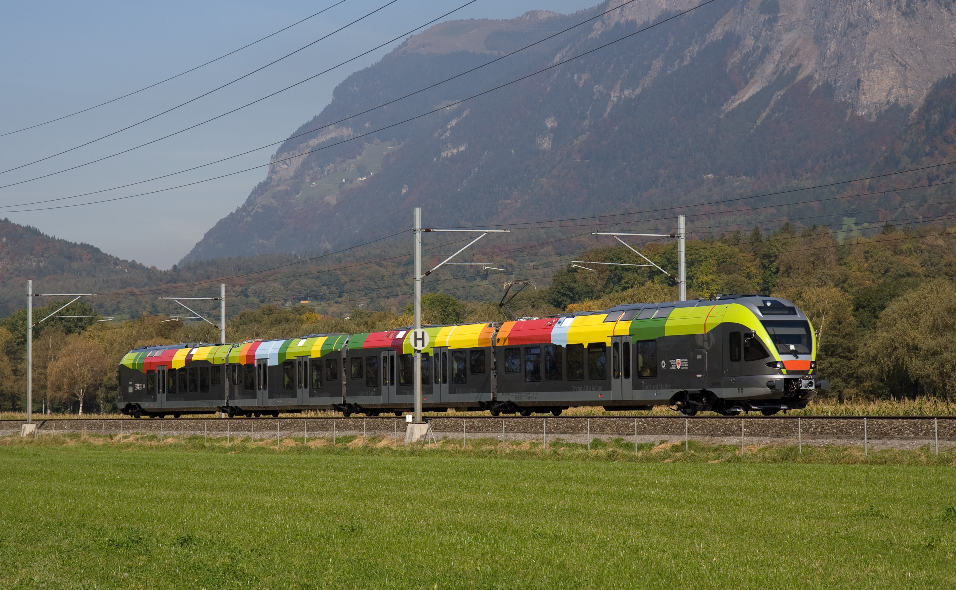 New STA (Strutture Trasporto Alto Adige Spa) multiple unit type Stadler Flirt (ETR 155) on a trial run between Sargans and Landquart in Switzerland.